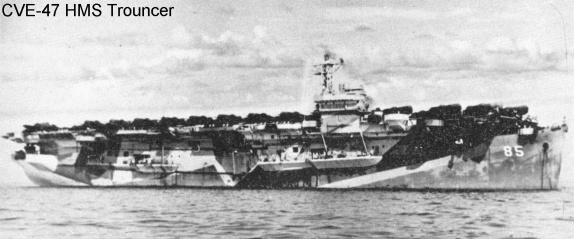 British Ameer class escort aircraft carrier HMS Trouncer (D85), starboard side view.